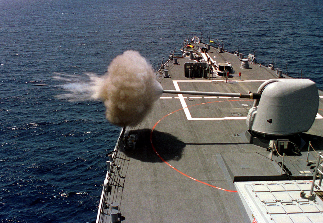 April 16, 1997, on board USS Benfold (DDG-65) The Arleigh Burke-class destroyer Benfold fires its 5″/54 MK 45 gun during routine training operations off the coast of Southern California. The MK 45 provides surface combatants with accurate naval gunfire against fast, highly maneuverable surface targets, air threats and shore targets.